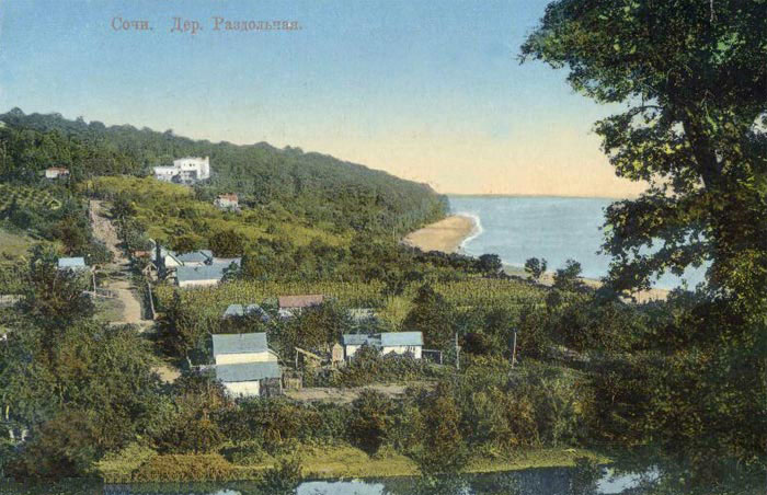 View on the village Razdolnaya near Sochi, Russia